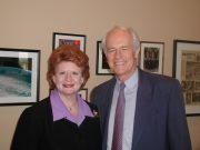 Actor Mike Farrell visited my office on June 4 to discuss protecting the environment.